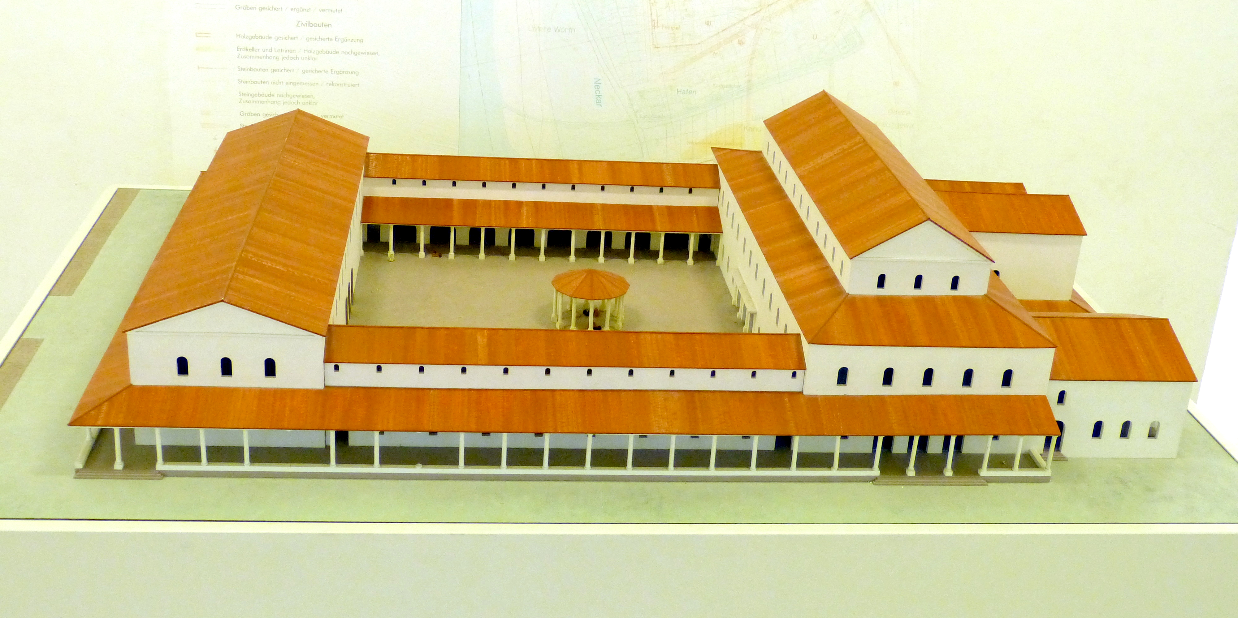 Konstanz ( Baden-Württemberg ). Archaeological Museum of Baden-Württemberg: Model of forum and basilica ( 100 AD ) of ancient Roman Lopodunum ( Ladenburg )